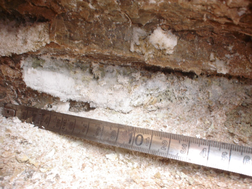 Mirabilite, Gypsum (Size: 18 x 4 cm) Locality: Vipos, Trancas Department, Tucumán, Argentina Original description: Vein of Mirabilite well Crystallized in Gypsum strata. From Gypsum Deposit of Vipos. Photo Taken by Raúl Jorge Tauber Larry in June 2012.